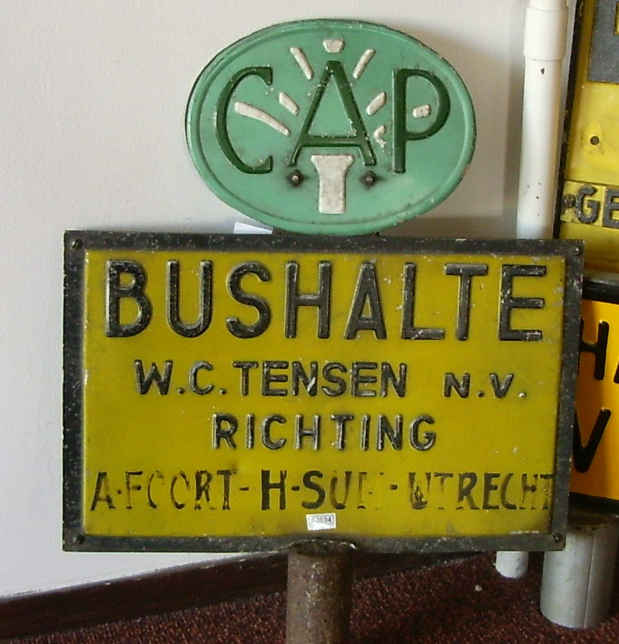 Tensen bus stop sign in the Public Transport Museum in Doetinchem. It must have been located on the Lt. Gen. Van Heutszlaan in Baarn.